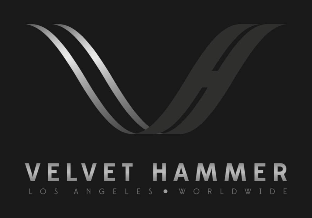 Velvet Hammer Music and Management logo.